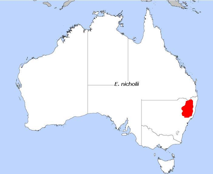 Distribution map of Eucalyptus nicholii — Pepermint gum.